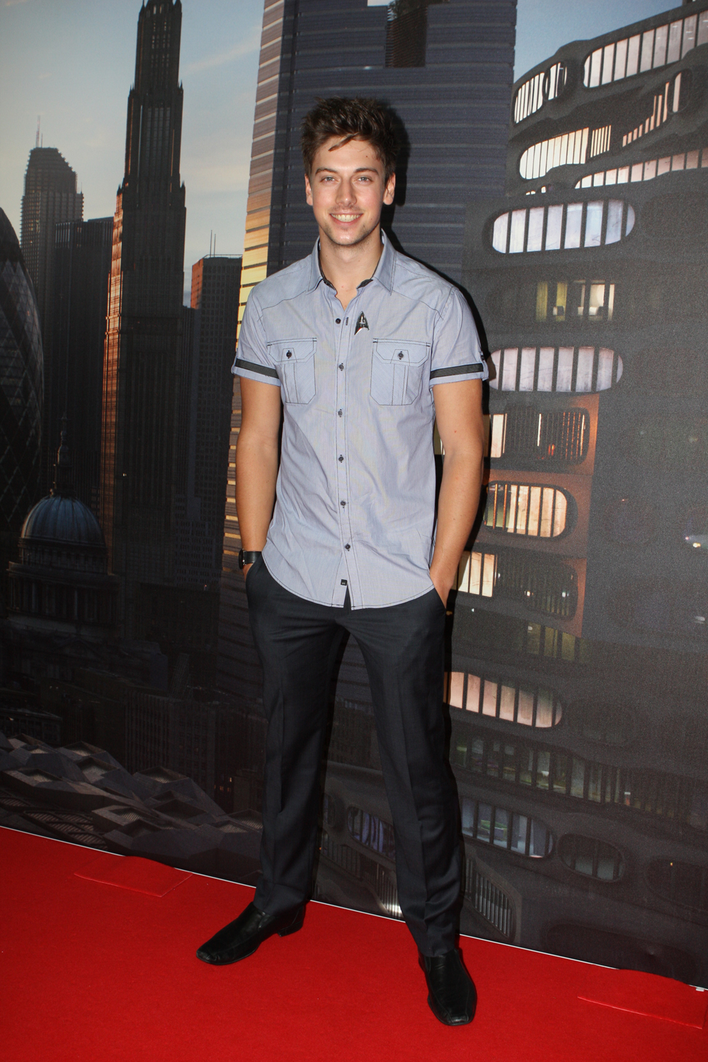 Lincoln Younes at the Star Trek Into Darkness Premiere in Sydney, Australia